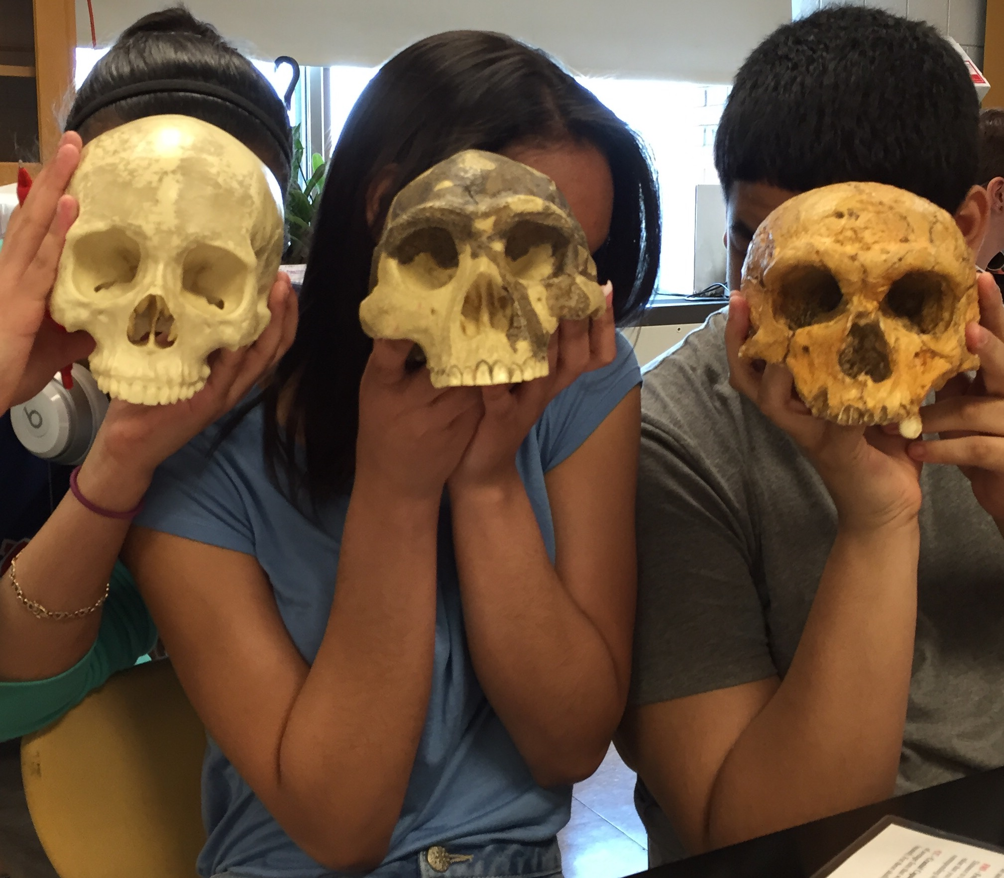 High school students in an introductory Biology course at Binghamton High School, Binghamton NY, USA, holding replicas of hominin skulls [presumably, H. sapiens, Australopithecus, H. erectus] in front of their heads.